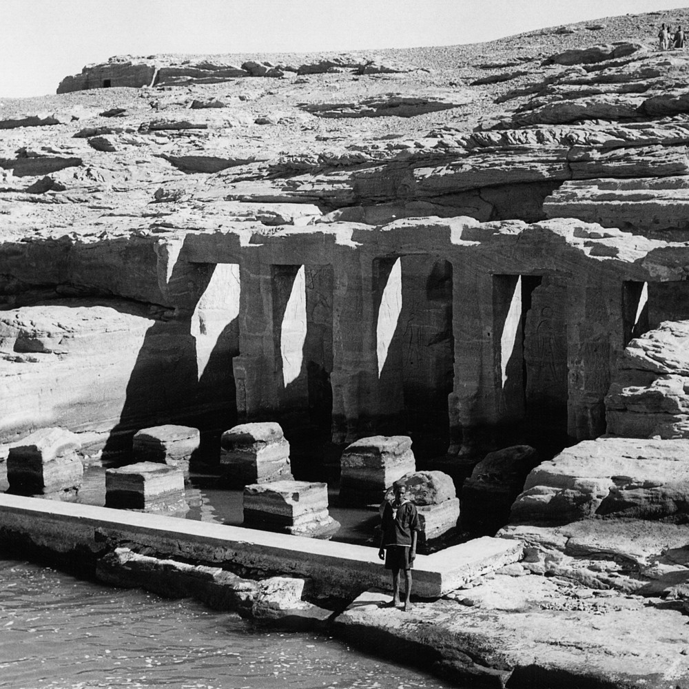 Temple dedicated to Pa - Horakhti, built during the reign of Rameses II ( 1290 - 1223 B.C.). Of twelve square pillars of the hypostyle hall, only the third row remains. The temple served as a church during the Coptic period. The reliefs and the pillars could be moved and sent to various museums.